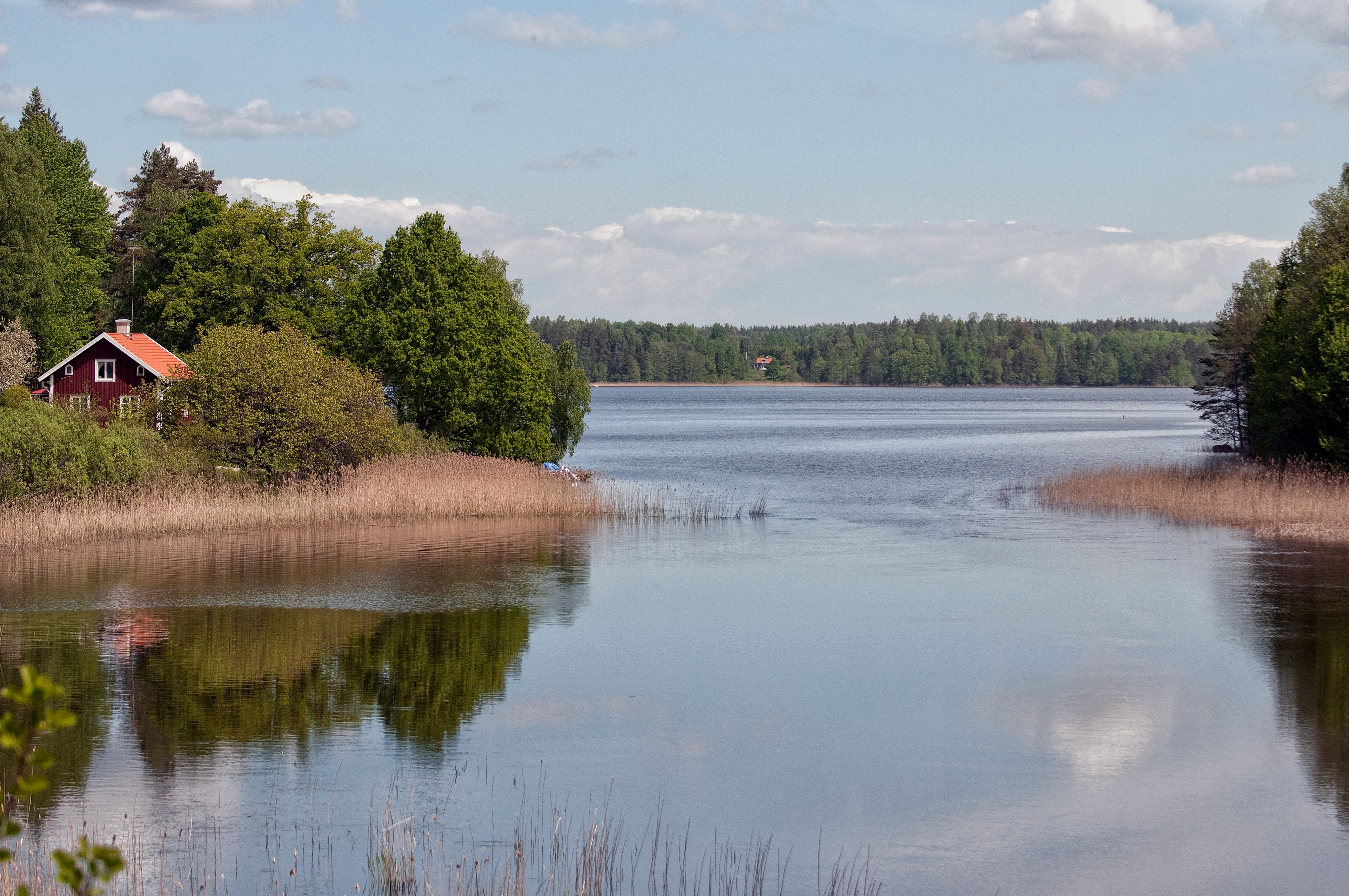 Lake Långhalsen at Mälsundet